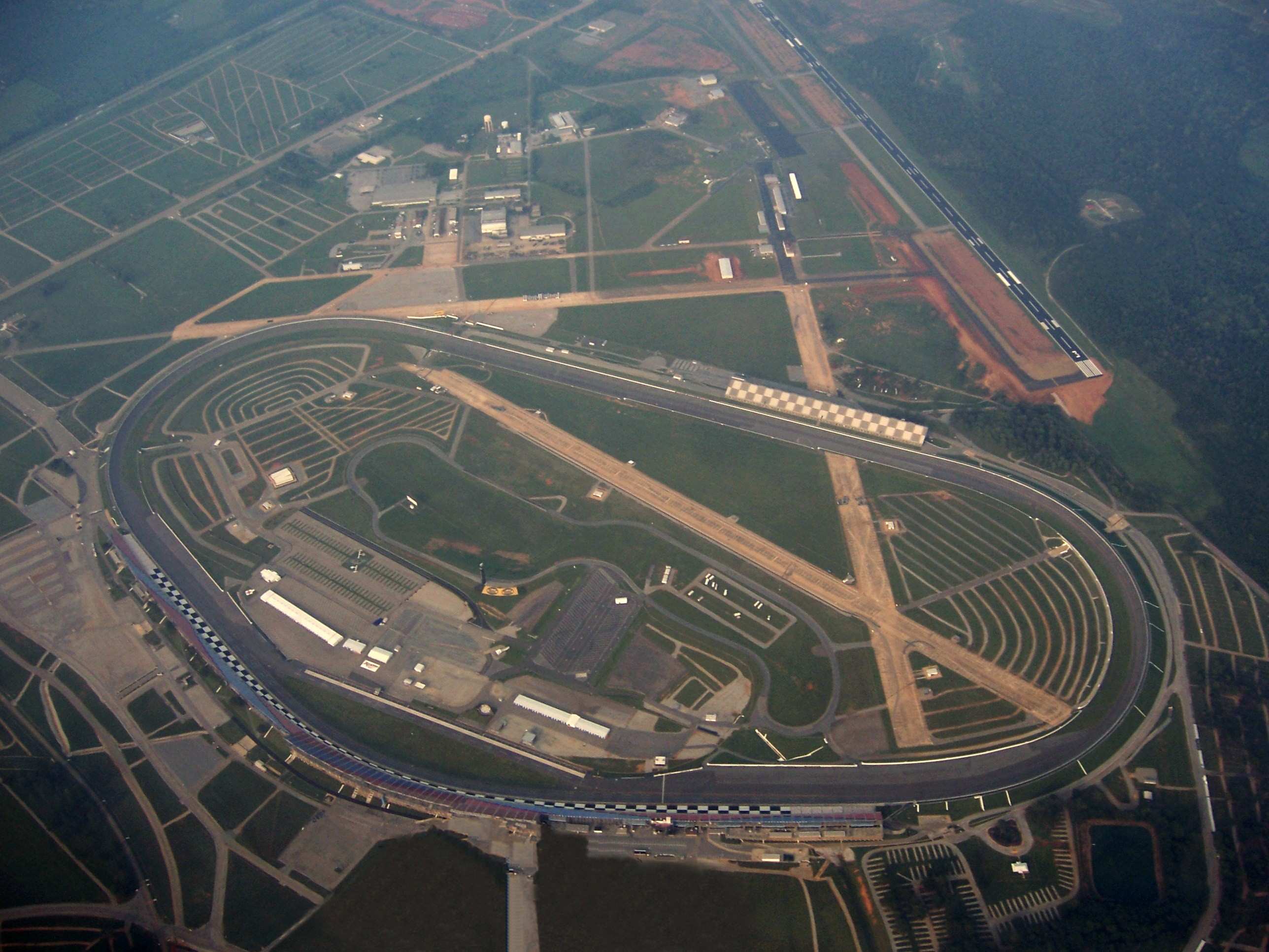 This image is of the Talladega Superspeedway, located in Talladega, Alabama. The image was taken from approximately 5000ft MSL (4500ft AGL) with visibility limited to approximately 4sm due to haze. The left wheel of the aircraft has been digitally removed from the image, causing some distortion in the lower sections, just below the track. The old Talladega Municipal Airport runways are still visible, crossing inside the track. The new airport and runway are located in the background, just north east of the track's position.